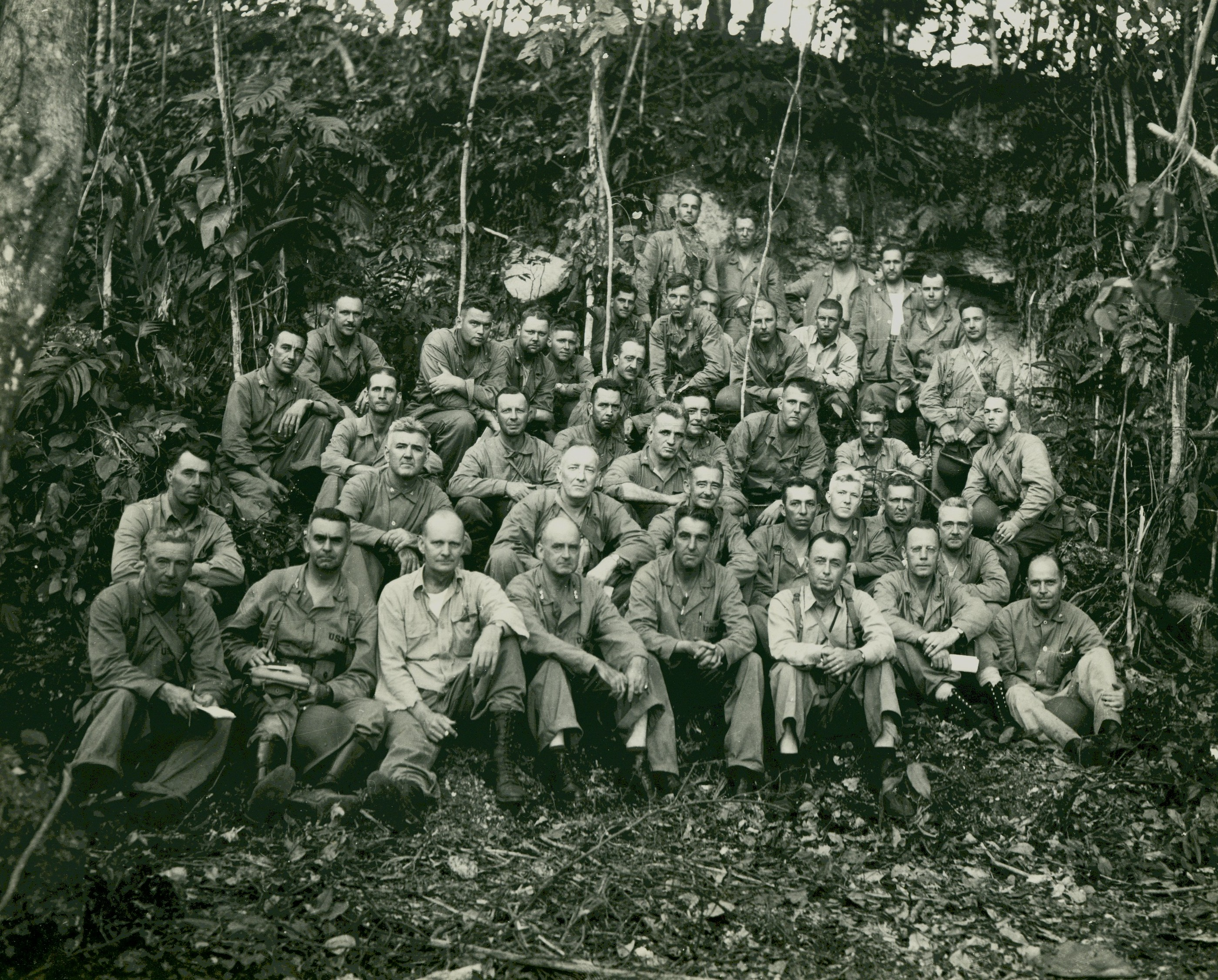 Members of the 1st Division staff on Guadalcanal, August 1942. Sitting in the front row are George R. Rowan, Pedro del Valle, William C. James, Alexander A. Vandegrift, Gerald C. Thomas, Clifton B. Cates, and Randolph M. Pate. From the collection of Clifton B. Cates (COLL/3157), United States Marine Corps Archives & Special Collections OFFICIAL USMC PHOTOGRAPH